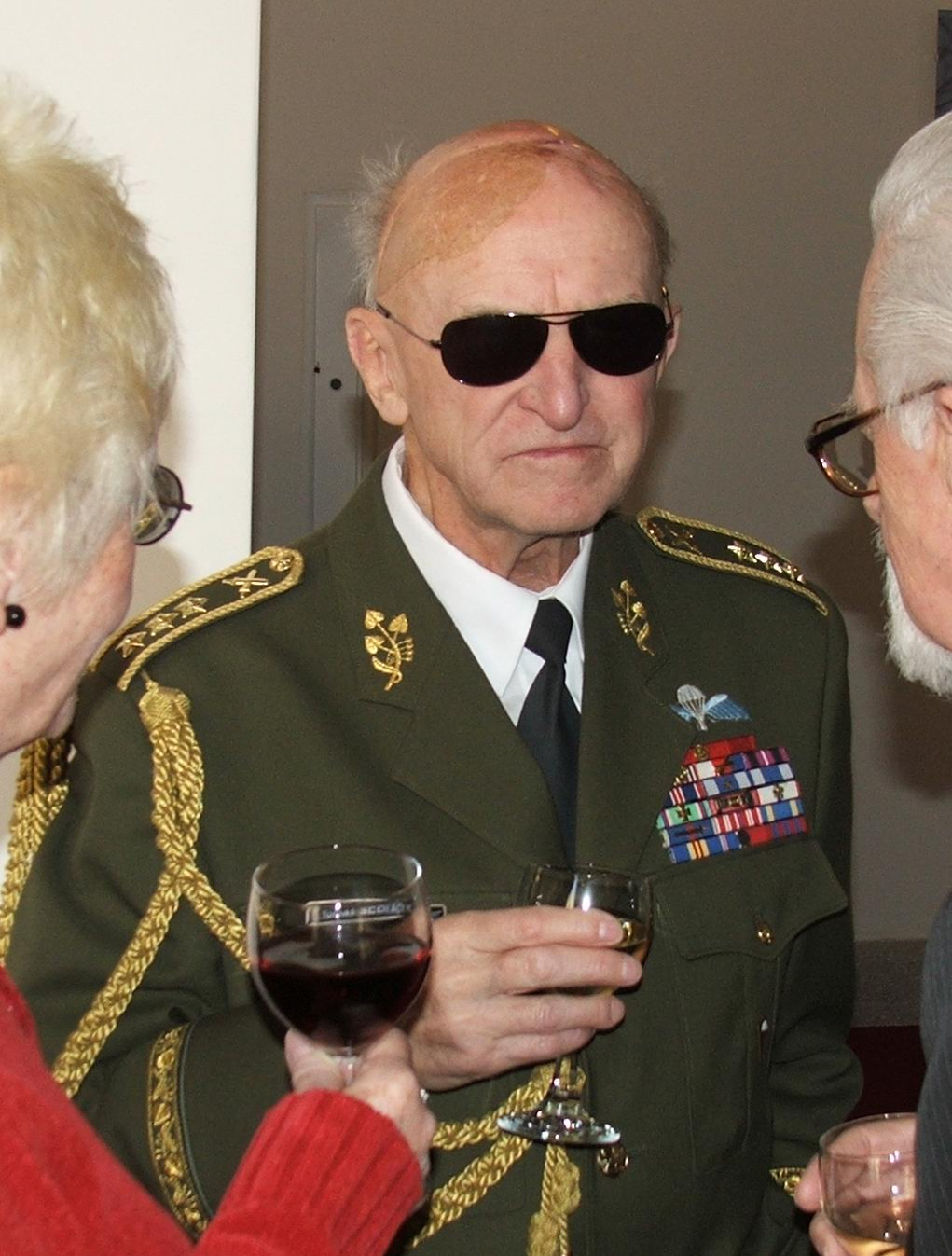 Tomáš Sedláček - czech general, veteran of WWII and political prisoner of communist goverment